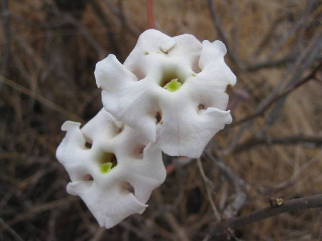 The white face of the flower with it's pale green tongue